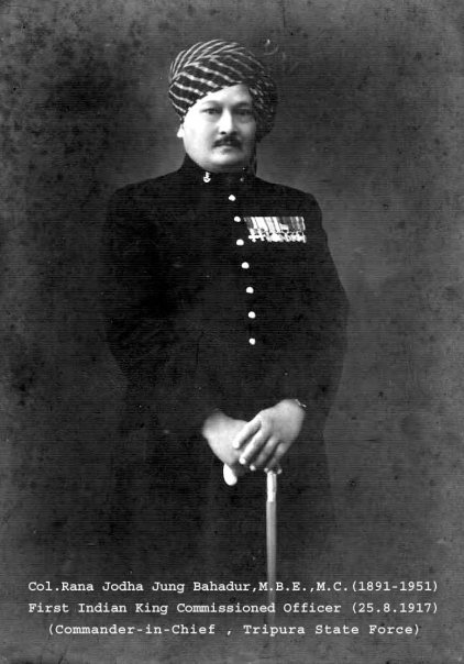 Commander-in-Chief (Tripura Forces) Col. Rana Jodha Jung Bahadur MBE, 1st King Commissioned Officer - Early 20th Century